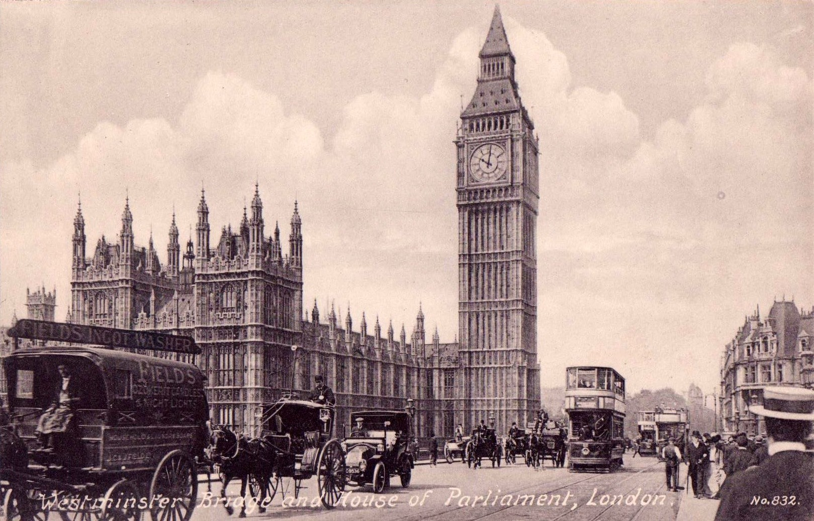 London. Westminster Bridge and House of Parliament. Postcard, c.1910. Publisher: O. Flammger. London (Stengel & Co. Dresden).